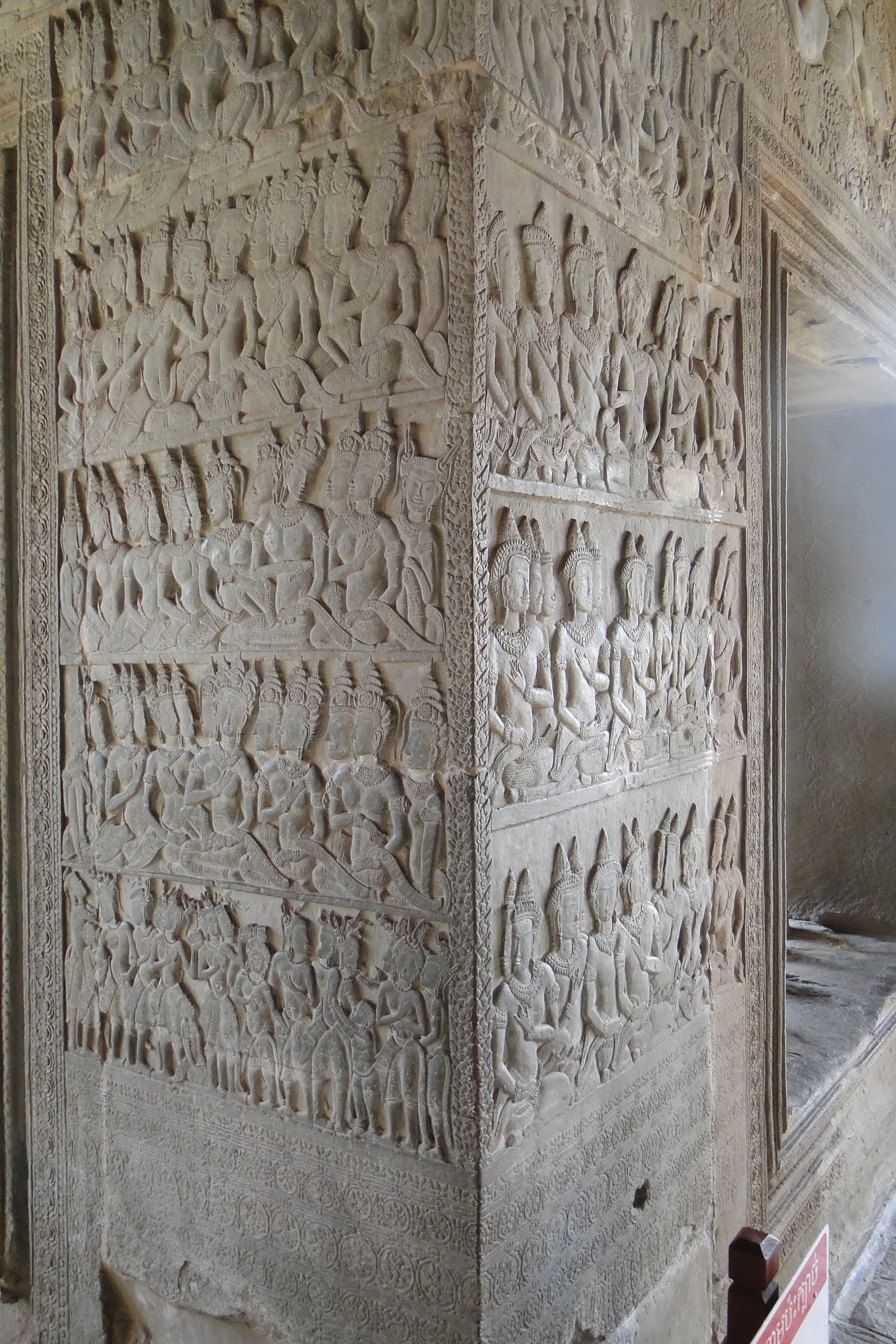 Flachrelief an der Ecke